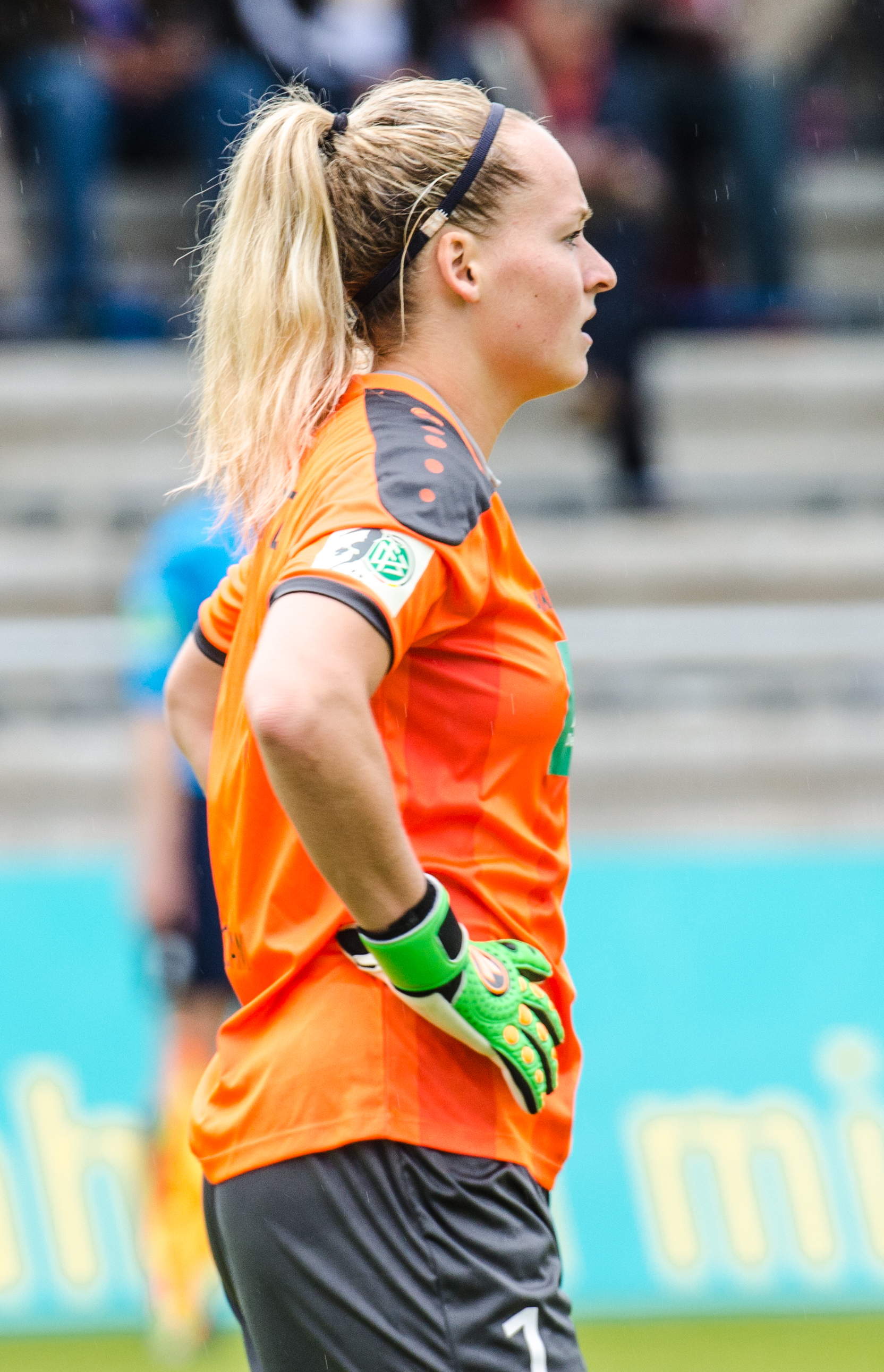 Match of the German Women's Football Bundesliga between 1.FFC Frankfurt and 1. FFC Turbine Potsdam, 2015-09-13